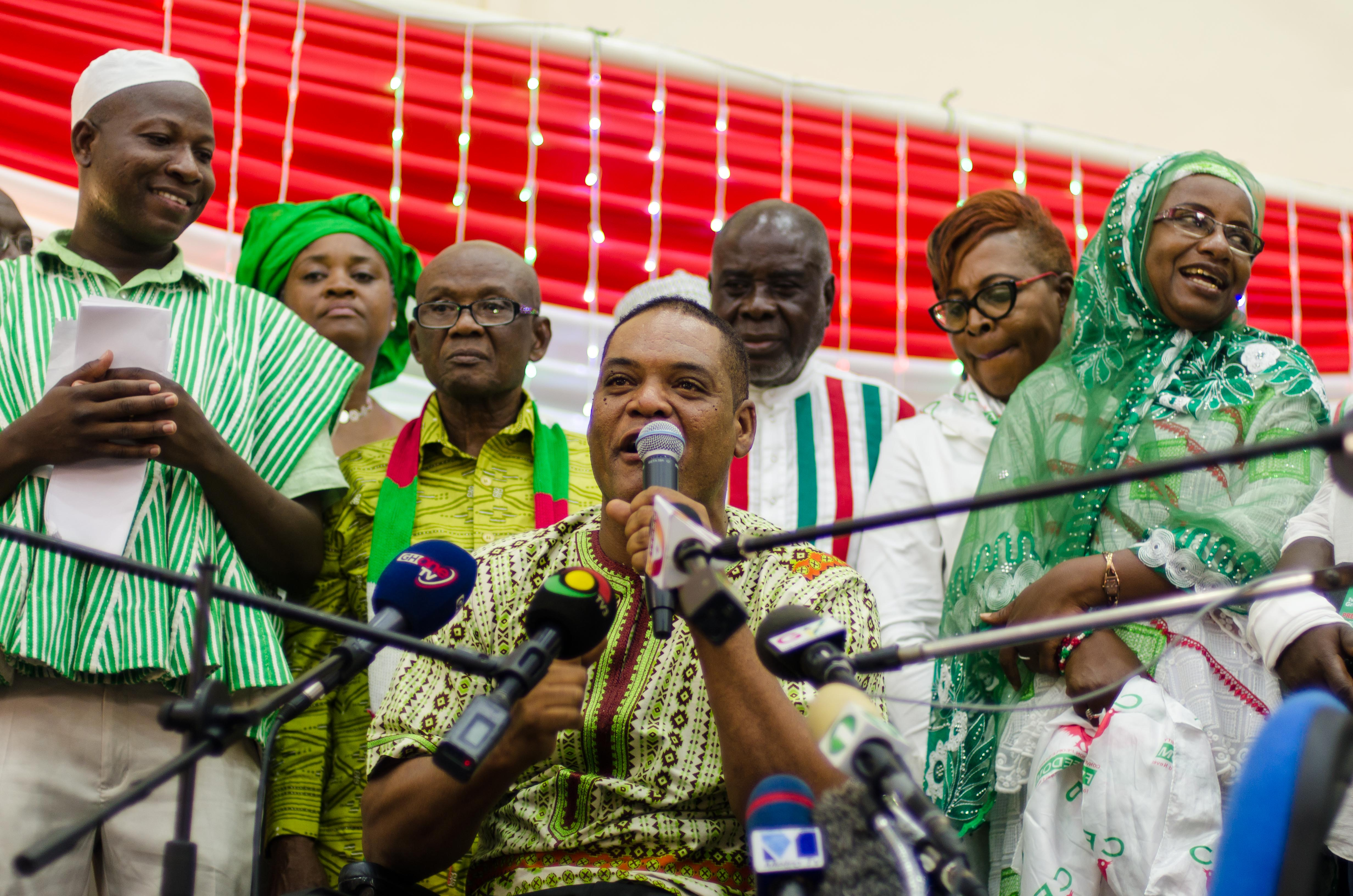 Conventions People's Party Presidential candidate for the 2016 general elections in Ghana.